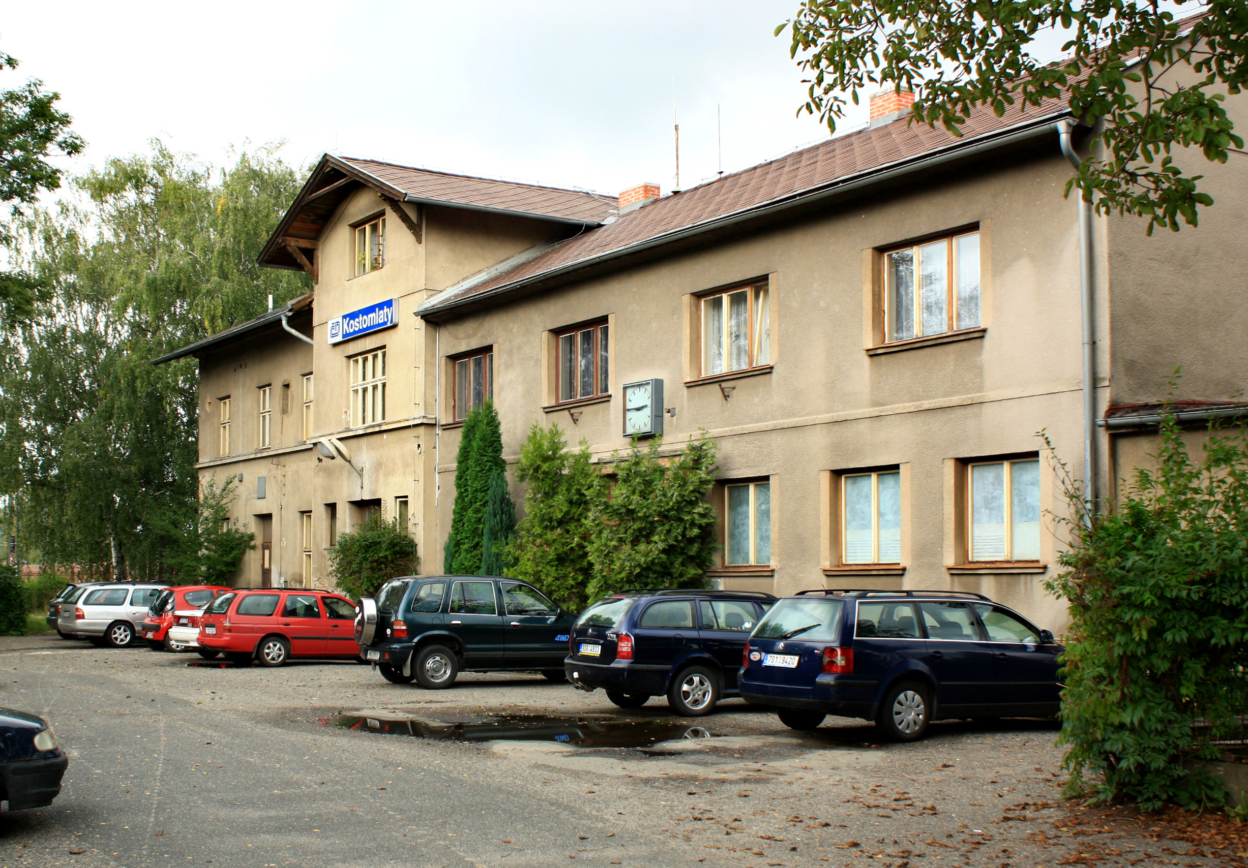 Train station in Kostomlaty nad Labem, Czech Republic